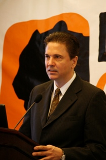 Mr. Douglas W. Clayton is CEO of Leopard Capital LP, captured during addressing the Leopard Cambodia Investment Forum 2008